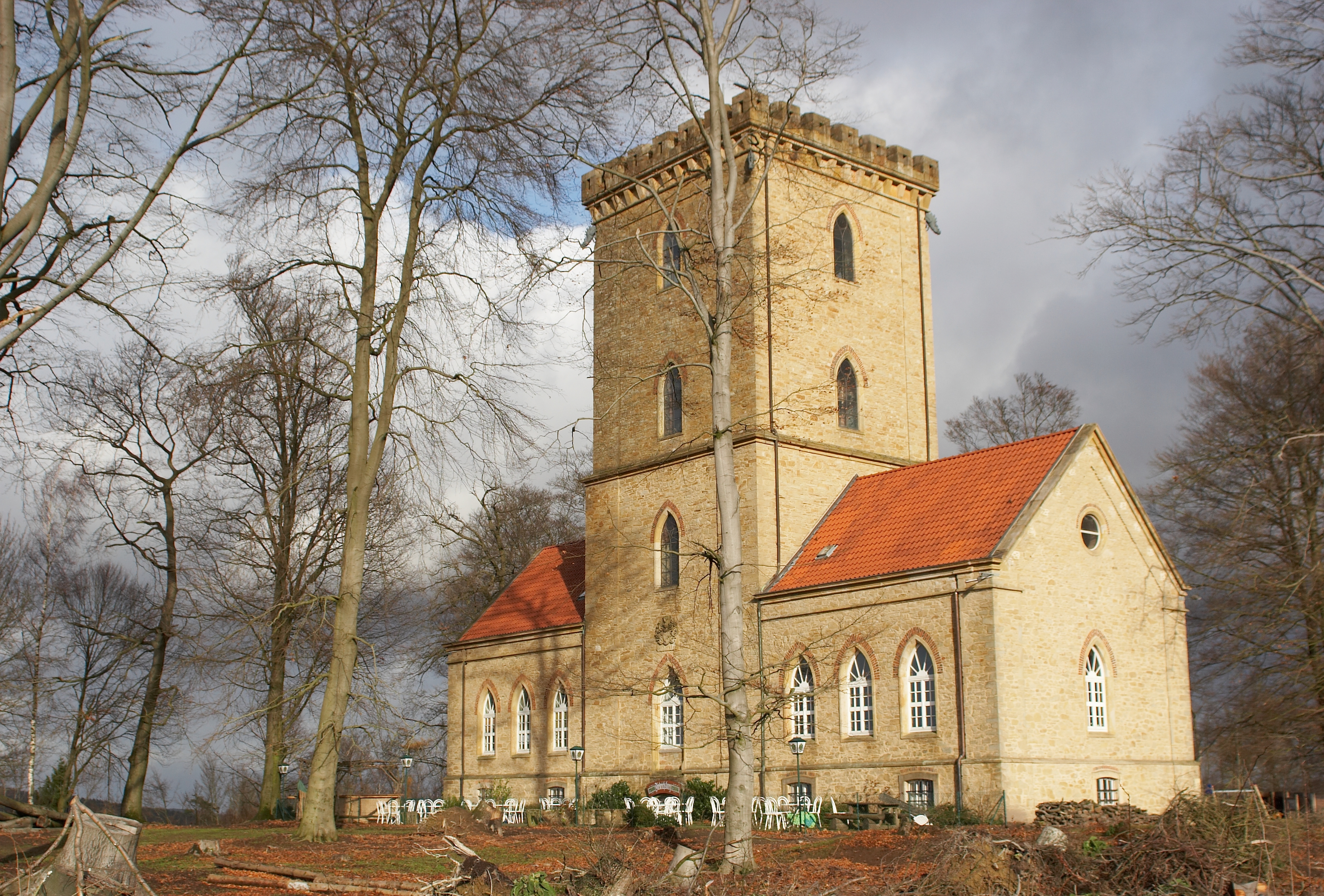 Diedrichsburg (Diedrich's Castle) near Melle, Germany